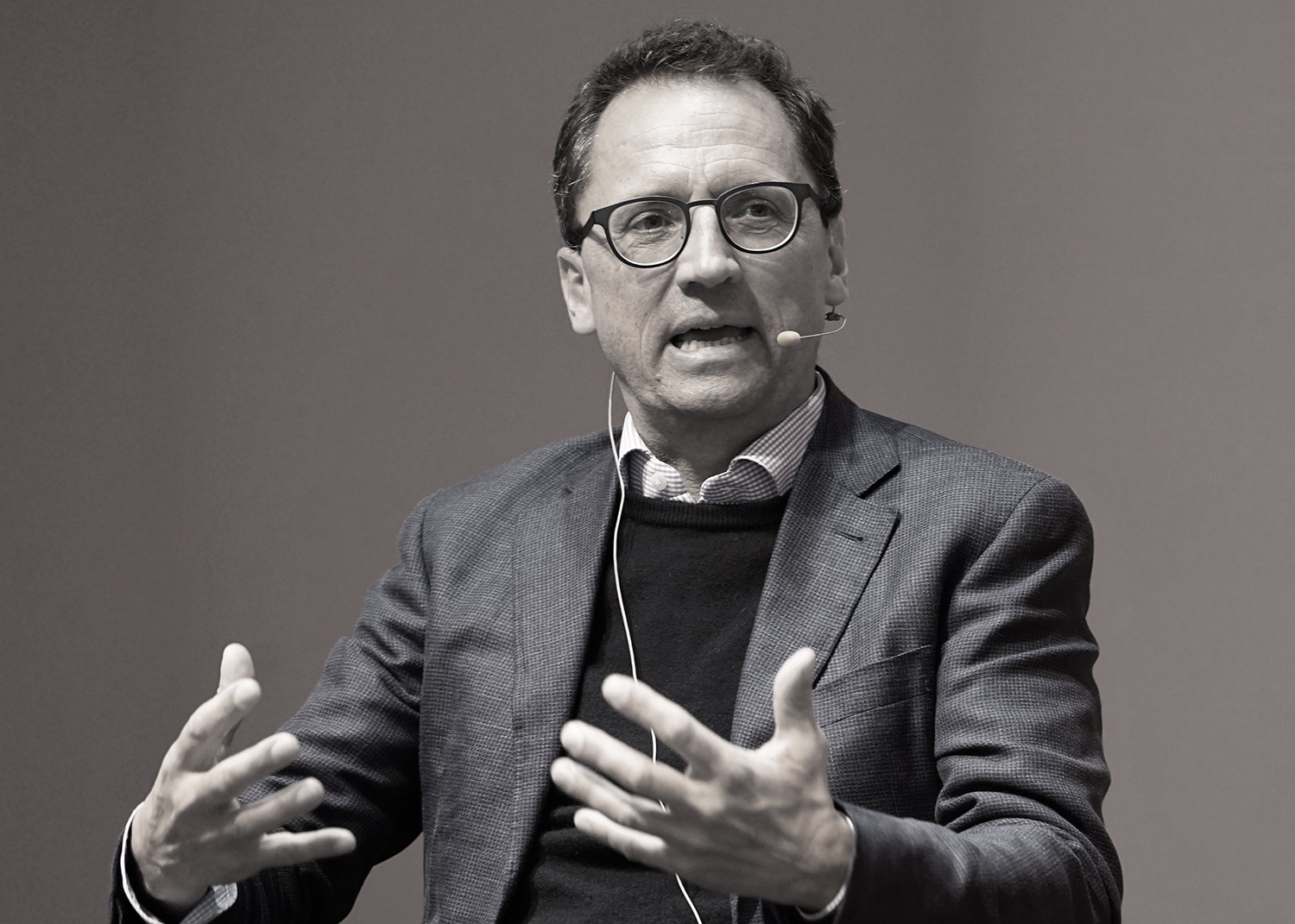 Morten Hesseldahl - Danish journalist and writer - at the Copenhagen Book Fair "BogForum 2018", Copenhagen, Denmark